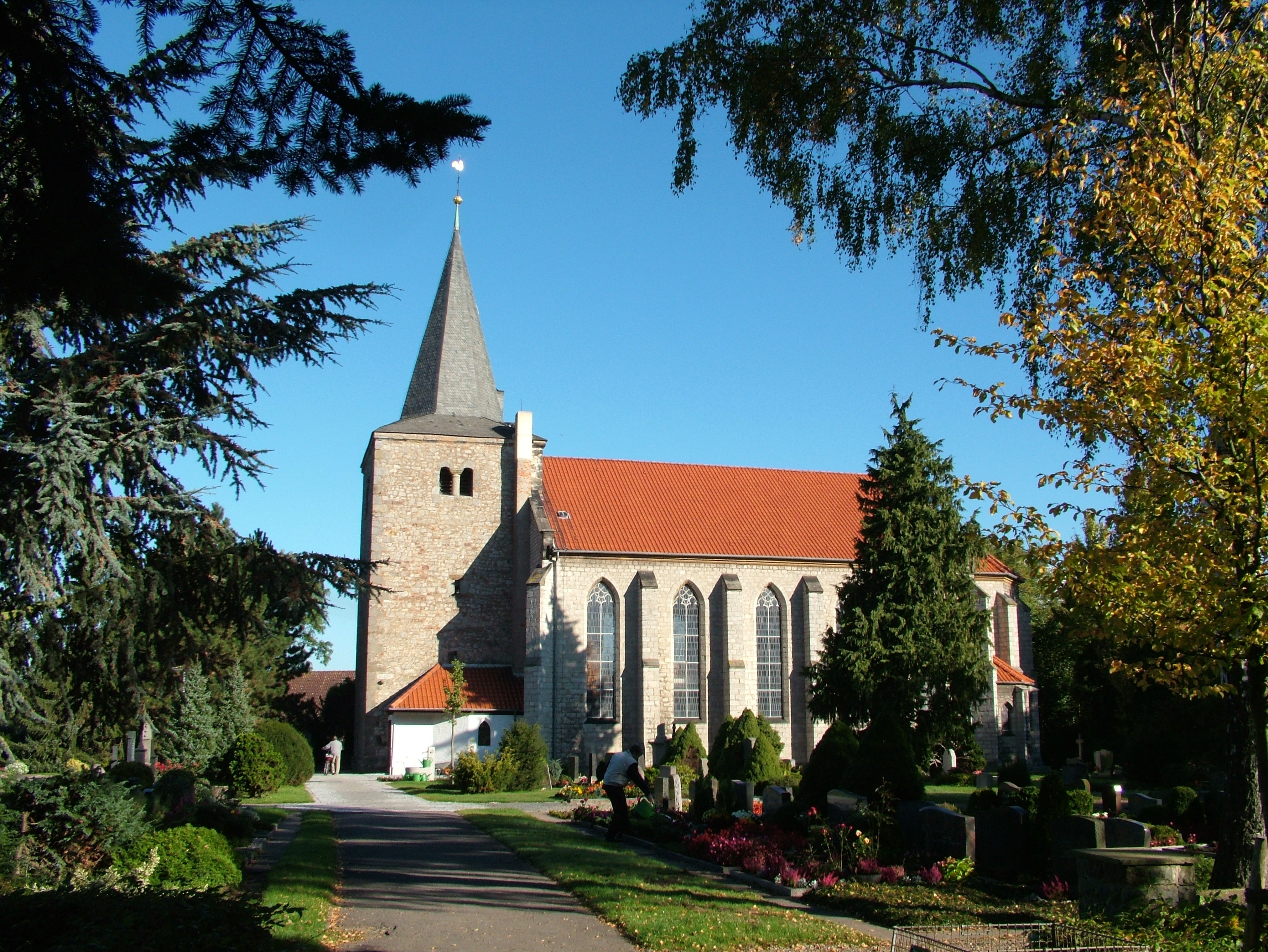 Church St. John in Nordstemmen, Germany